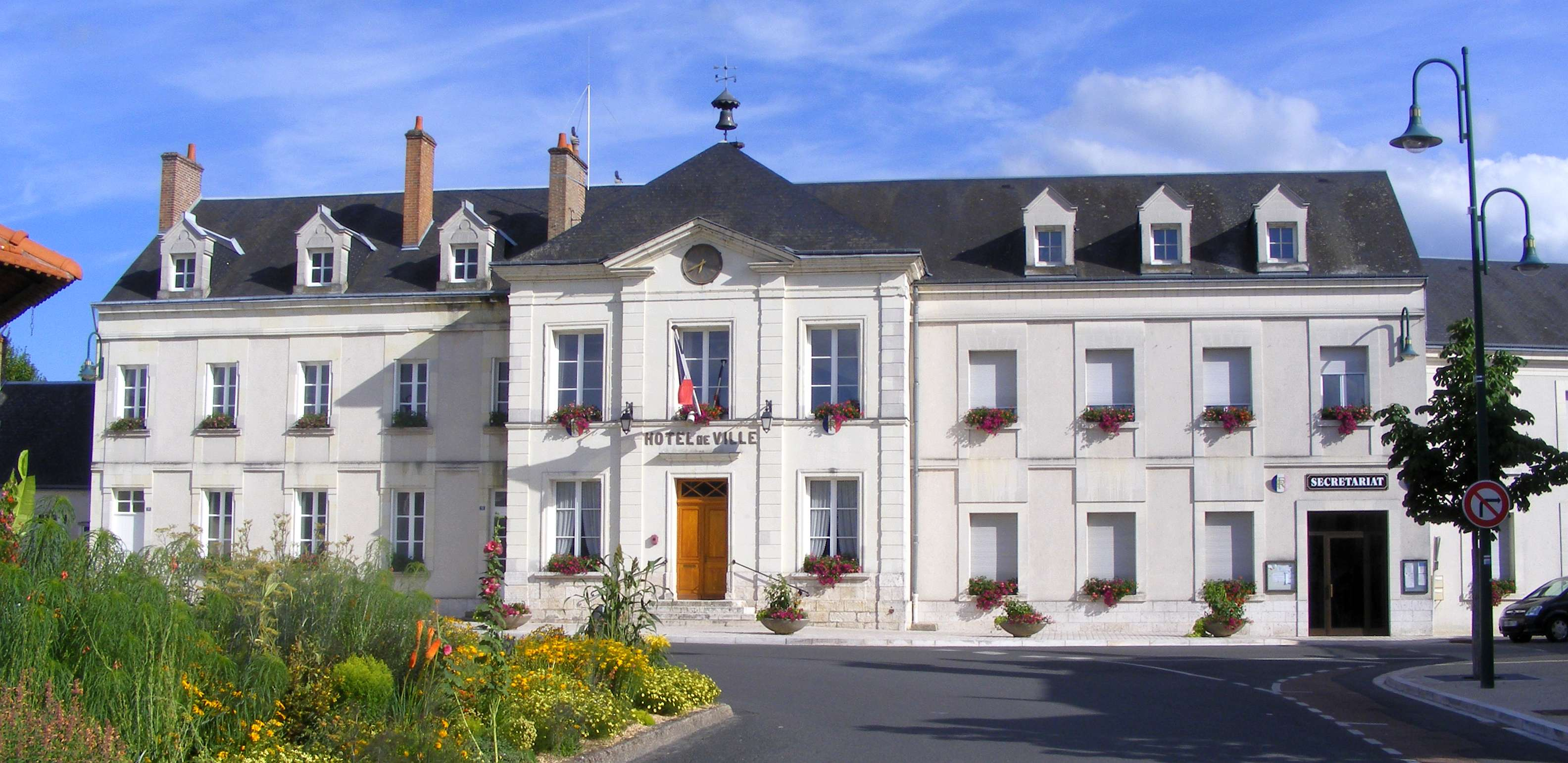 Bracieux: town hall